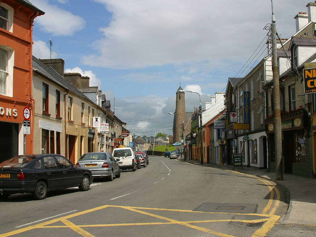 View of Donegal Town, County Donegal, Ireland